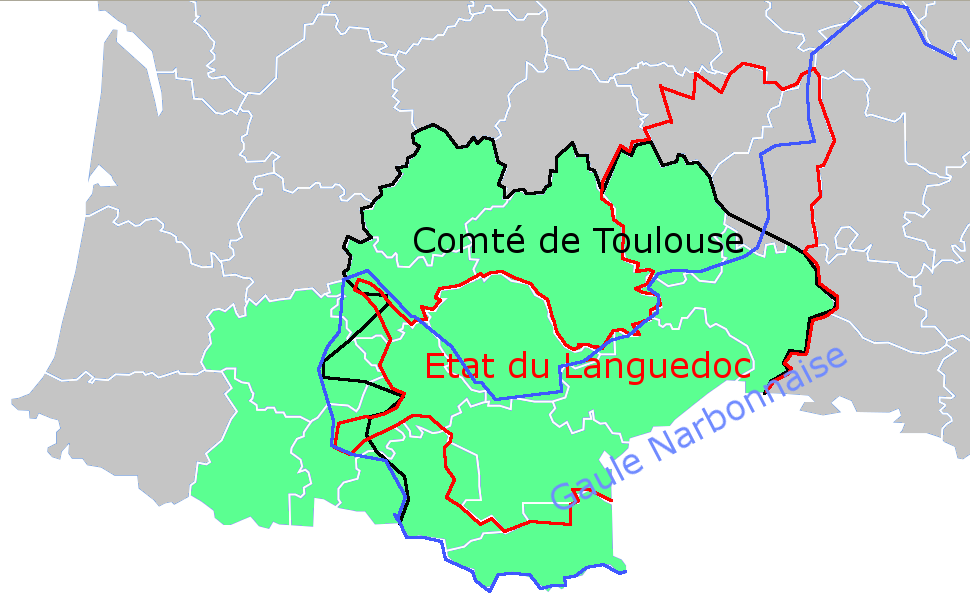 This map shows how the territory that the project to merge Languedoc-Roussillon with Midi-Pyrénées would correspond to previous, historical territories of the area.